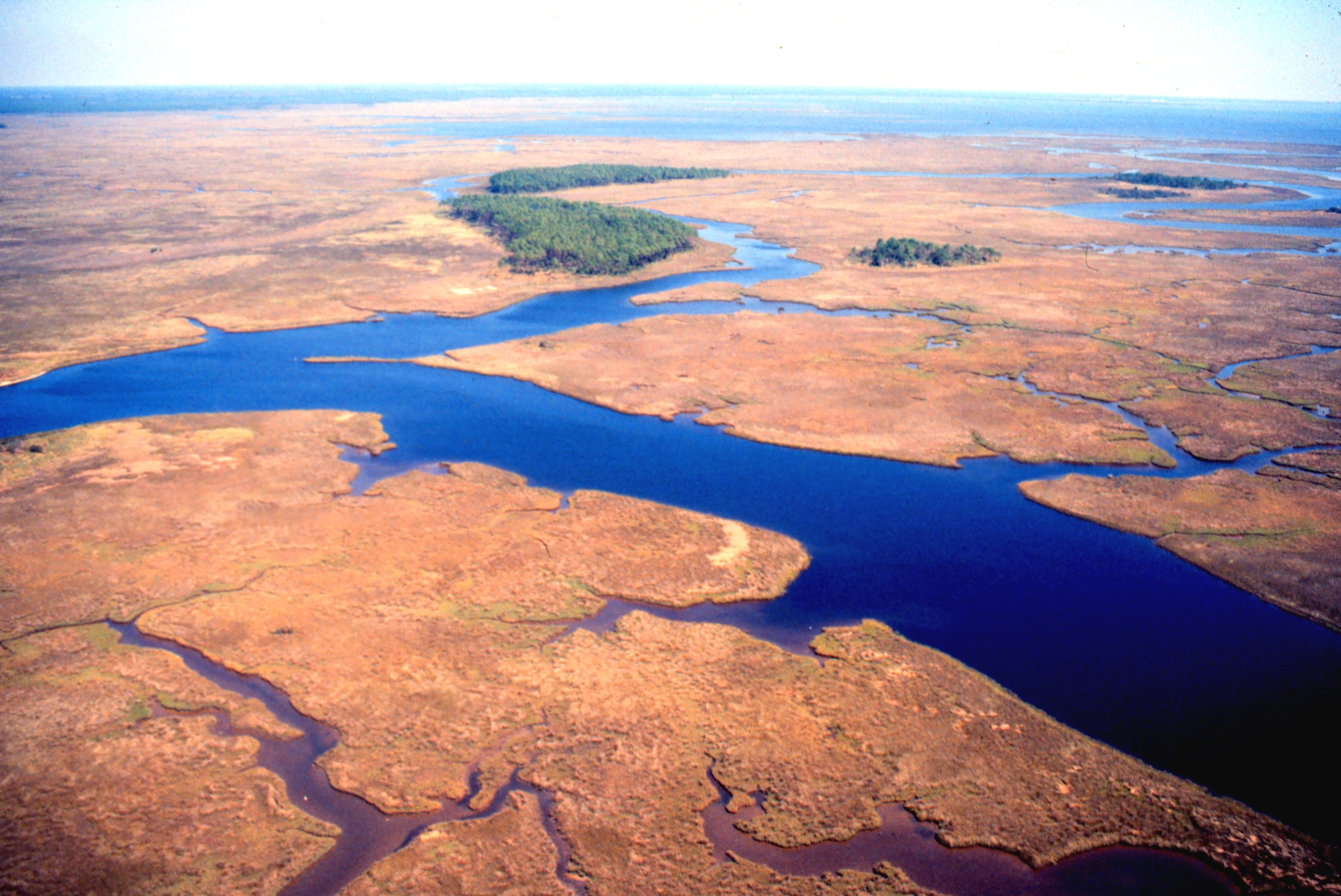 Grand Bay National Estuarine Research Reserve. East over Bayou Cumbest looking east showing maritime pine islands on Crooked Bayou